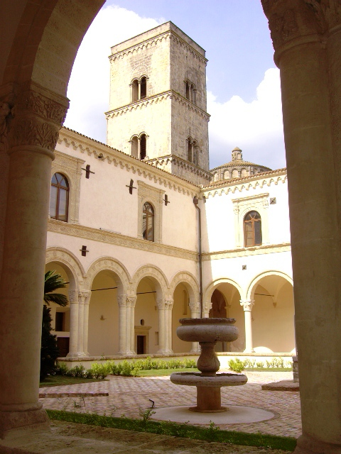 Abbey of San Michele Arcangelo